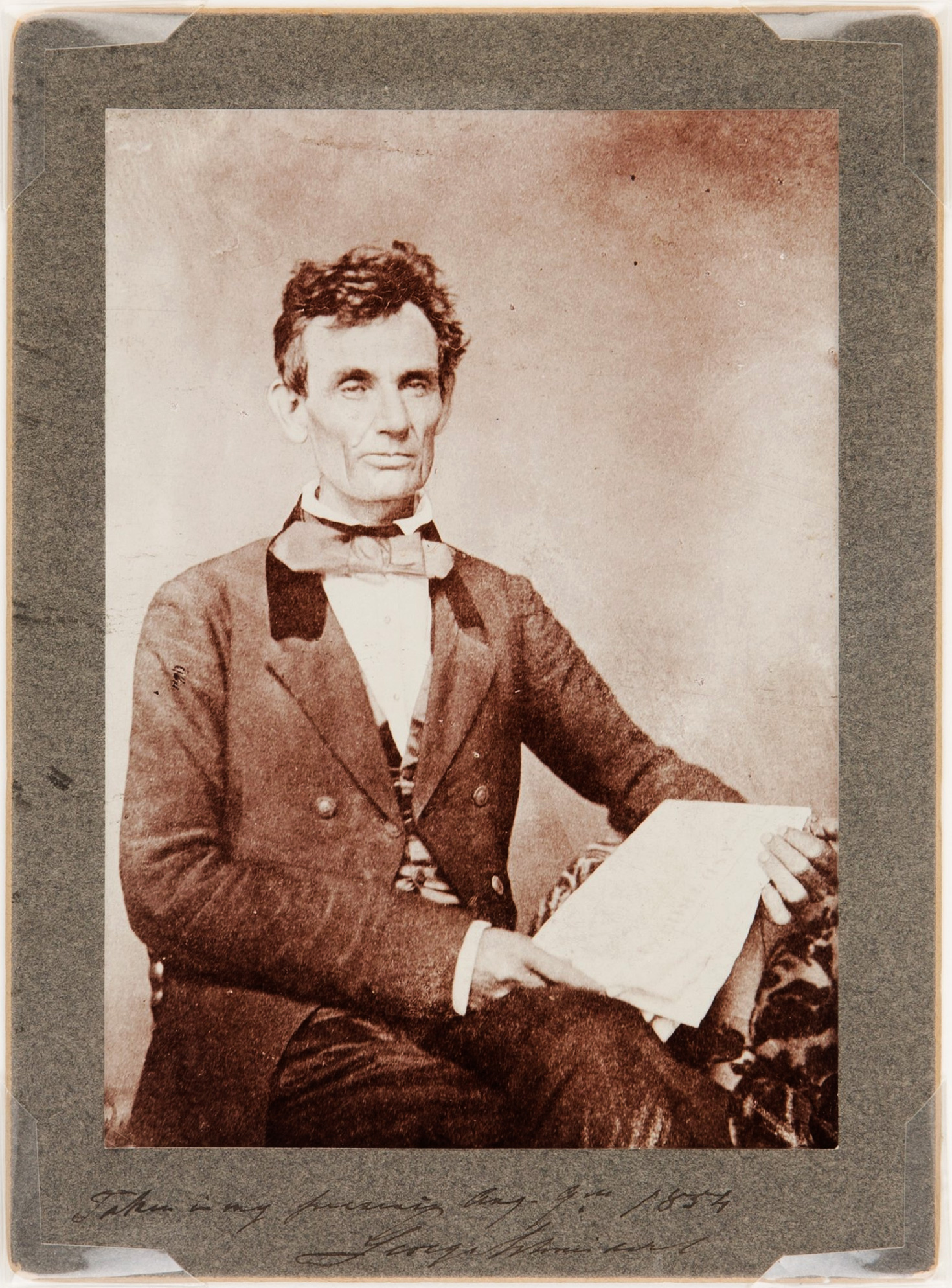 Abraham Lincoln O-6: Boudoir Card of 1854 Photograph. Card measures 5.5" x 7.5" and has a caption which reads: "Taken in my presents [sic] August 9th 1854 [signed] George Schneidau".